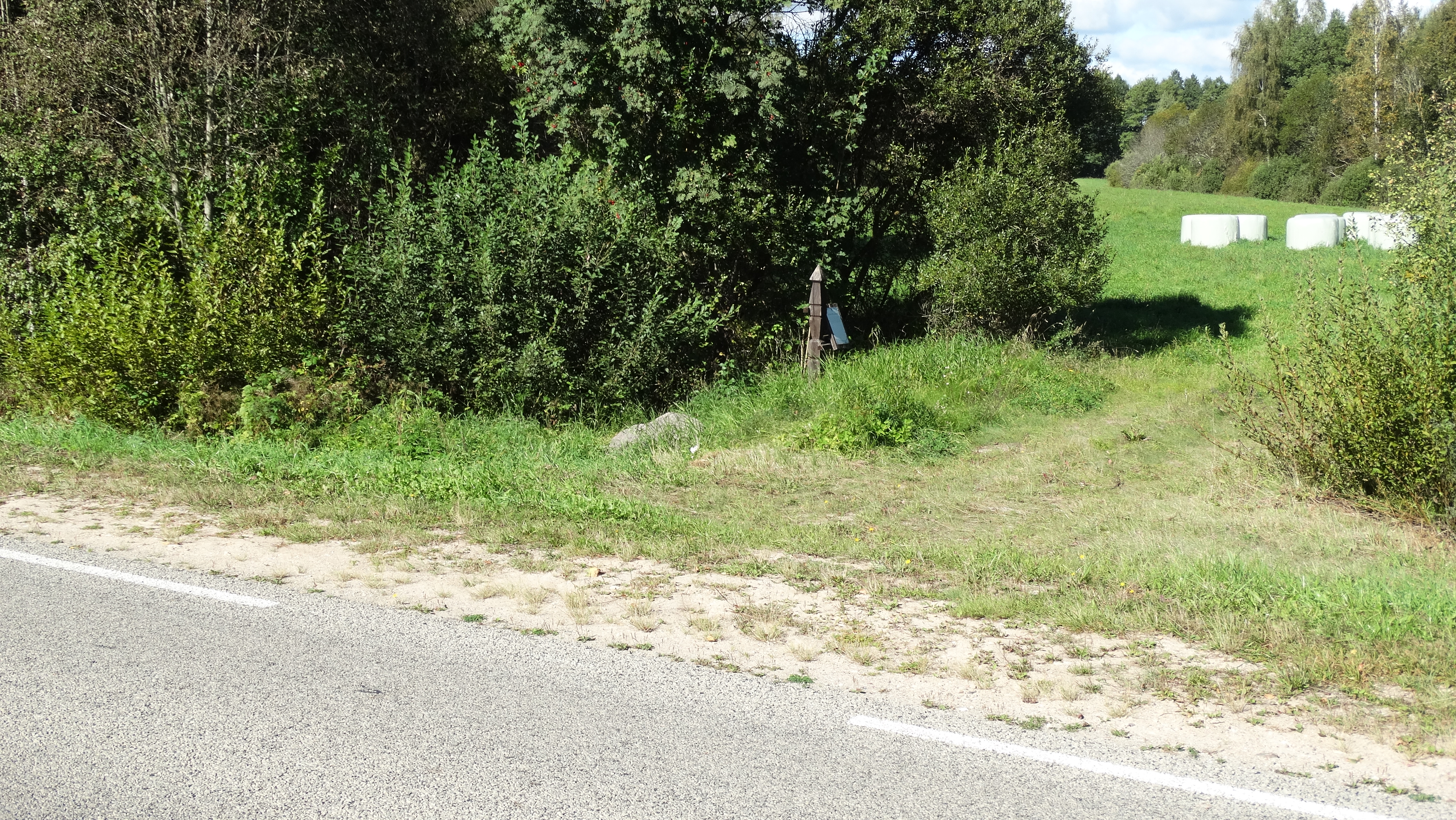 Stone, Plavėjai, Ignalina District, Lithuania